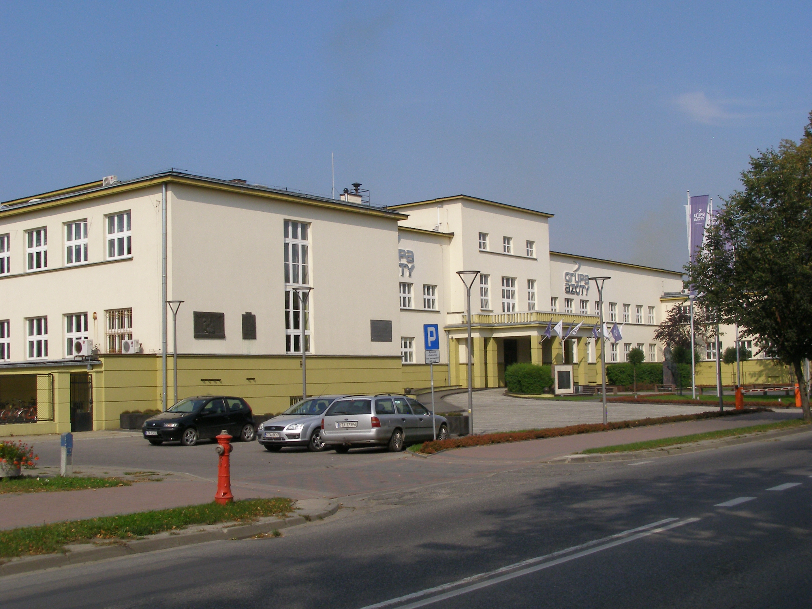 Tarnów - building of the Nitrogen Compounds Factory